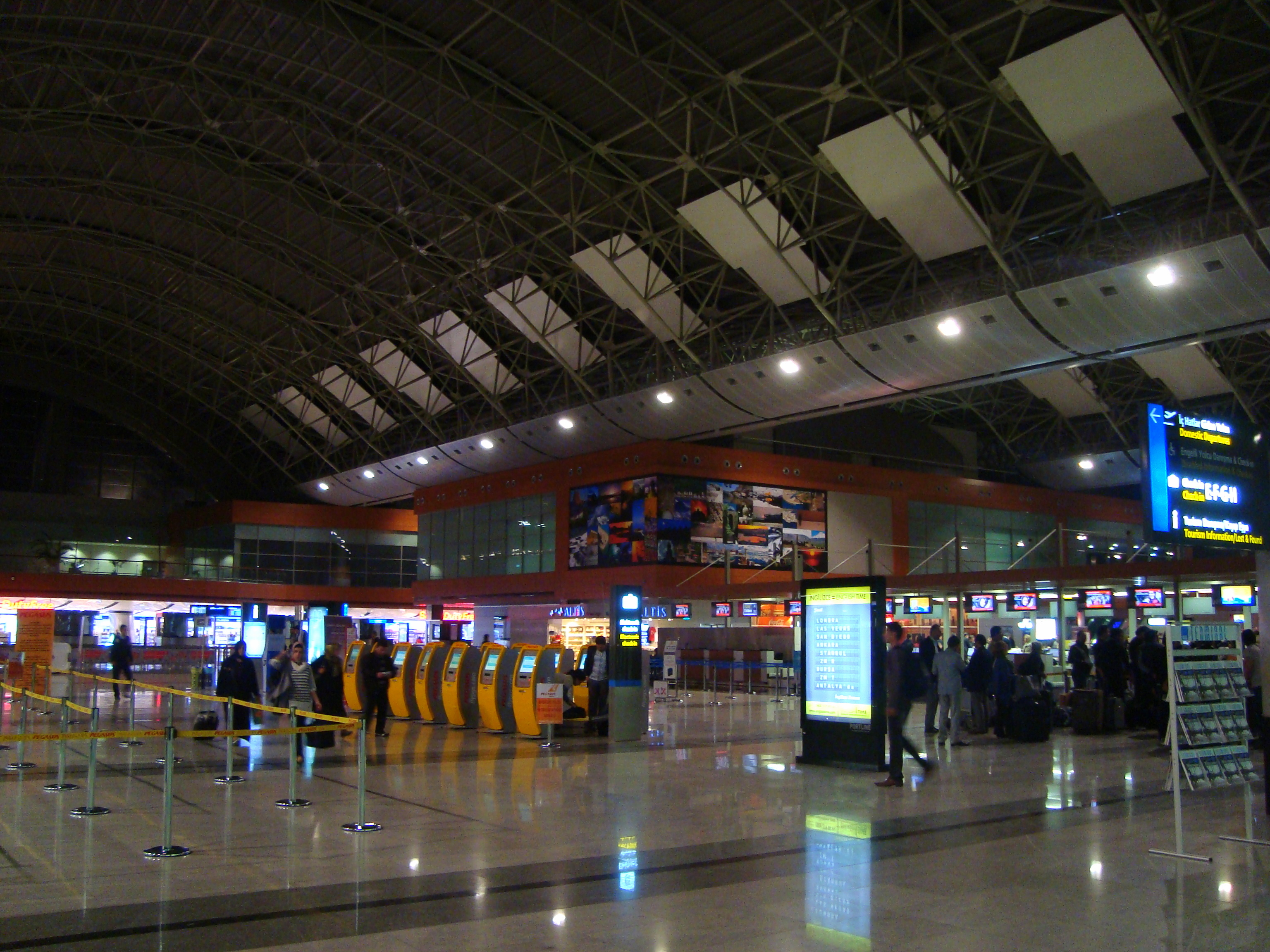 The departures level at Sabiha Gokcen Intl., Istanbul, Turkey